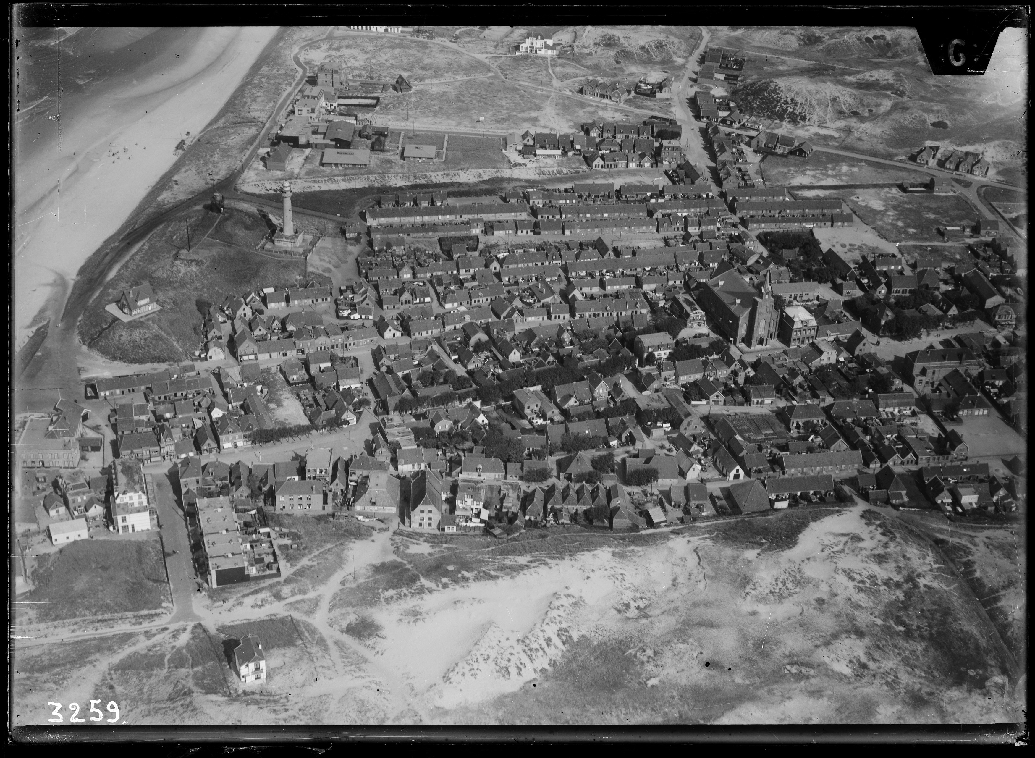 Aerial photograph of Egmond, The Netherlands